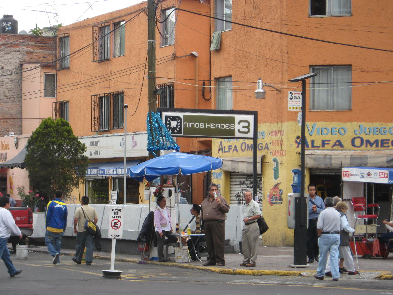 Entrance to Metro station Niños Heroes located on Line 3 of the Mexico City Metro system